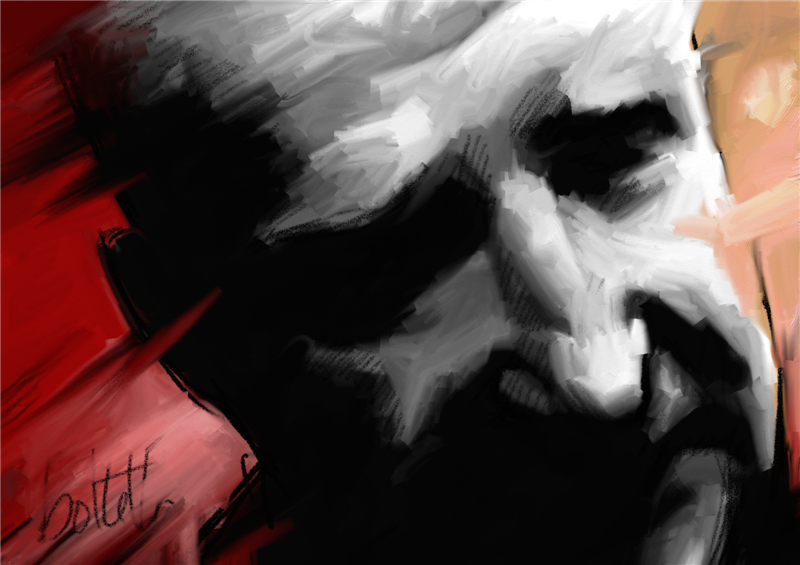 Eduardo Lourenço (born in Almeida, Portugal on May 29, 1923) is a Portuguese essayist, professor, critic, philosopher, and writer. He once attended the Colégio Militar and studied at the University of Coimbra, where he also was professor. He won the Camões Prize in 1996. (Painting by Bottelho)